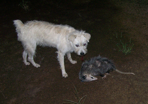 An injured Virginia opossum lies at the feet of its assailant, a Wire Fox Terrier.